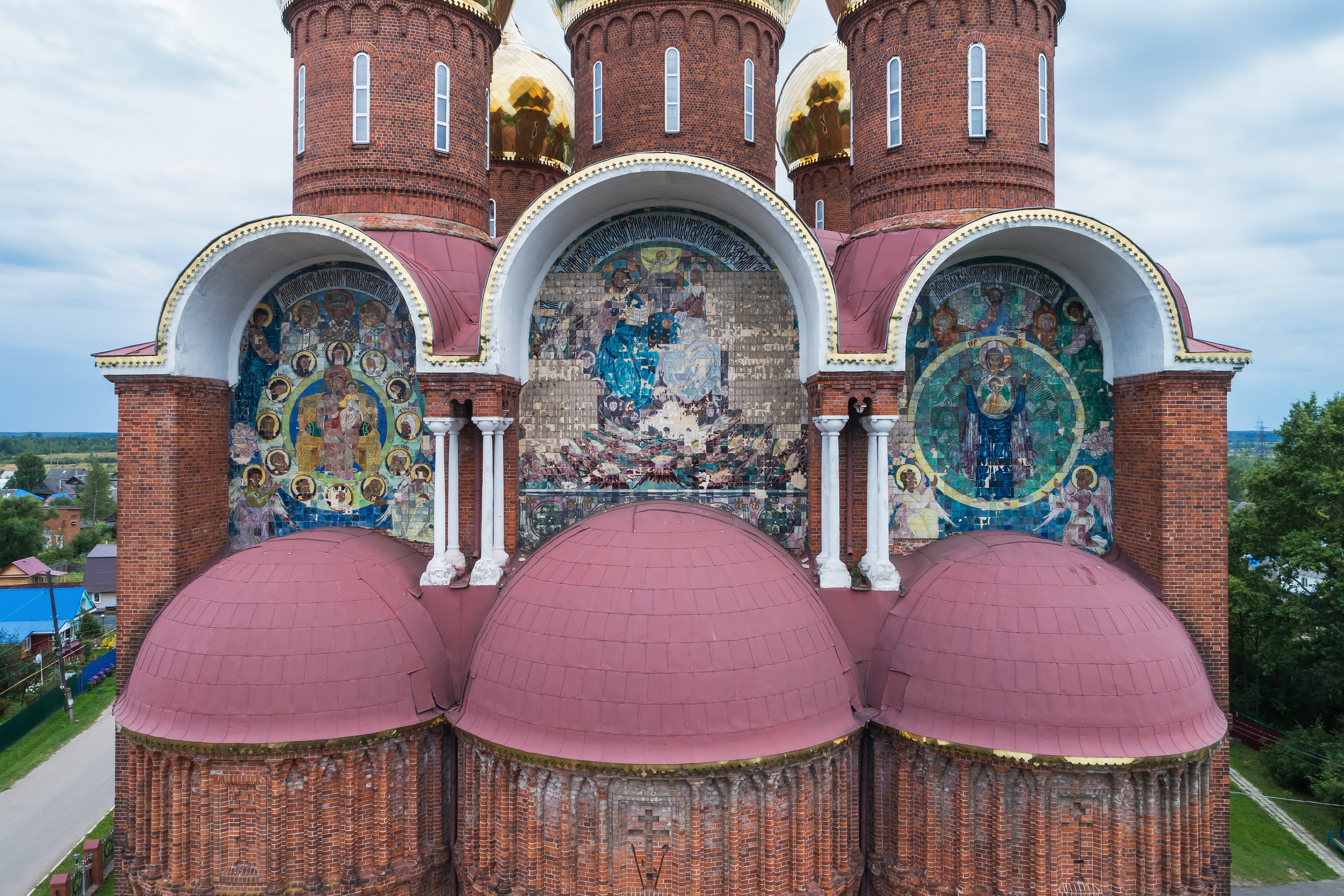 Aerial photo of the Resurrection Church in Vichuga, Ivanovo Oblast, Russia. The picture shows the maiolica at the east facade.